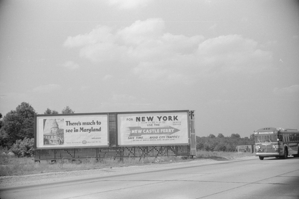 Billboards along U.S. 1 near Laurel, Maryland